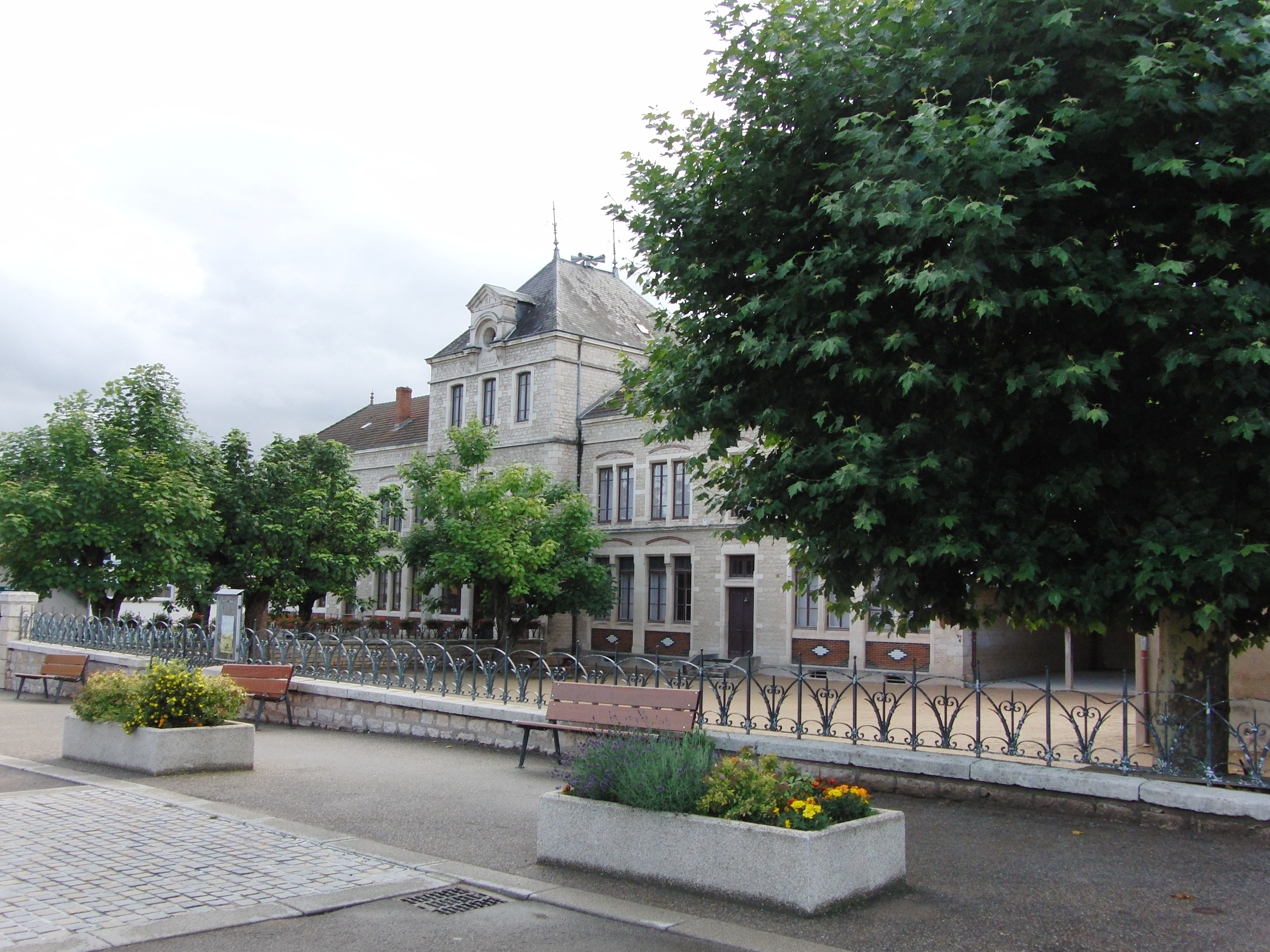 Matour's city hall, Saône-et-Loire, France